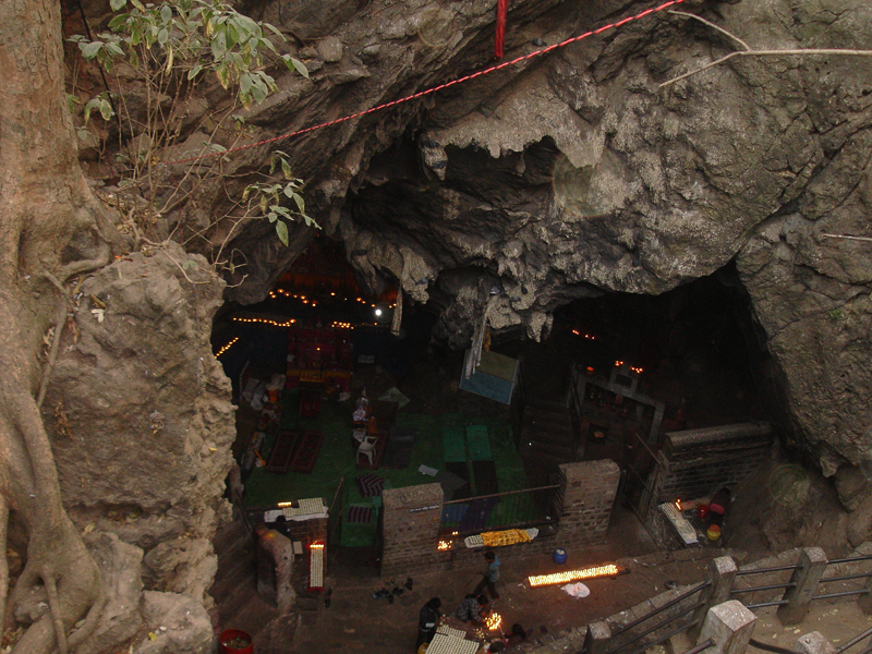 Halesi Mahadev Temple is one of the famous temple located in eastern part of Nepal. It is situated in Khotang district in Nepal above 3,100 ft. – 4,734 ft. above sea level. It is 185 km south west of Mount Everest. It is a venerated site of Hindu and Buddhist pilgrimage .it is to believe that the inside Halesi Mahadev temple the Halesi Cave has been known to be dwelling in existence since the past 6000 years.